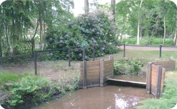 Torfschiffswerft Schlussdorf: Replica of a Klappstau, a flap weir, invented by 1830 by Canal Steward (Kanalvogt) Müller from Wörpedorf (Wörpdorp). It is a leather flap vertically flexible and horizontally enforced by parallel wooden boards applicated on the downstream side and upheld on the upstream side by the headwater and on the downstream side by a guiding lateral edges bent upstream. So when a vessel approaches upstream its bow well sticks out above the upper edge of the concavely bent flap weir and by moving on its sloping underside gently presses down the flap, allowing the vessel to skim over it with the swashing downstream torrent. Moving upstream needs more manpower pushing the vessel's bow against the convexly bent flap weir to press it down against the headwater's counterpressure and then steering the barge against the downstream torrent. Mire Commissioner (Moorkommissar) Claus Witte (1796–1861; 1826-1861 in office) promoted Müller's idea, however, the new practical tool was very expensive, so that it took until 1840 that the first samples got installed in a watercourse at Eickedorf (Eekdorp), soon spreading to all navigable watercourses in the Teufelsmoor.